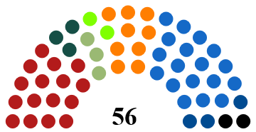 Post-2016 Cypriot parliament.